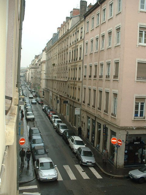 rue Ney, Lyon